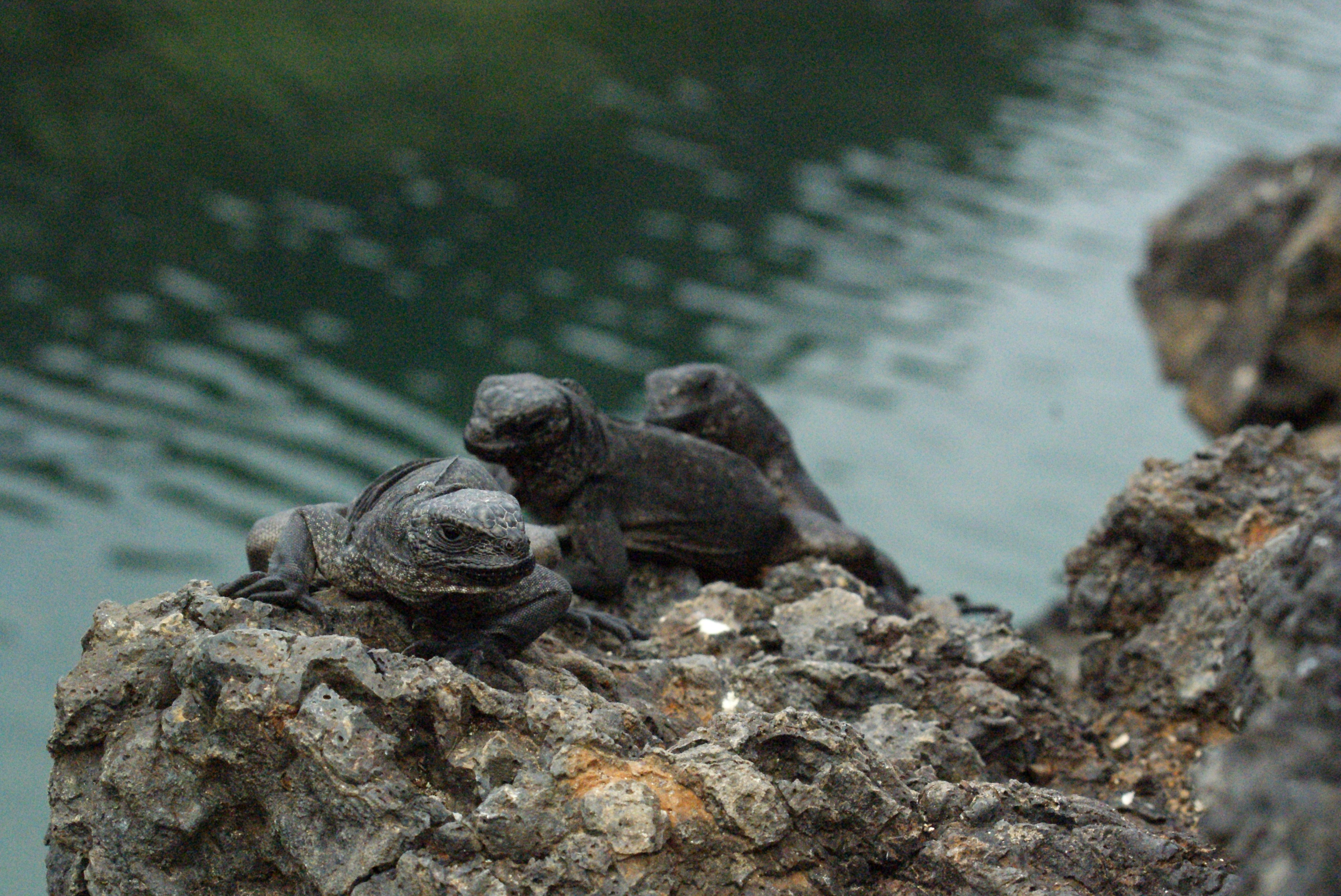 This was a nesting ground on an isolated islet off the coast of Isabela. In the background is a small channel full of white tip sharks. I figured they were waiting for baby iguanas to clamber in and get a nice meal, but our guides said the sharks were merely resting in the calm waters and rarely feed on iguanas. Darwin hypothesized that the reason you can't scare a marine iguana into the water is because that's were its only predators are (thet are actually predated by hawks on land too though). A more likely reason would probably be that diving into the water forces one to loose copious amounts of body heat. Only large marine iguanas will dive into the water to feed, as they can retain body heat more easily, and smaller iguanas will feed more in the intertidal zones during low tide. This also helps explain their dark pigmentations, which would help gain heat rapidly during basking after a cold swim.